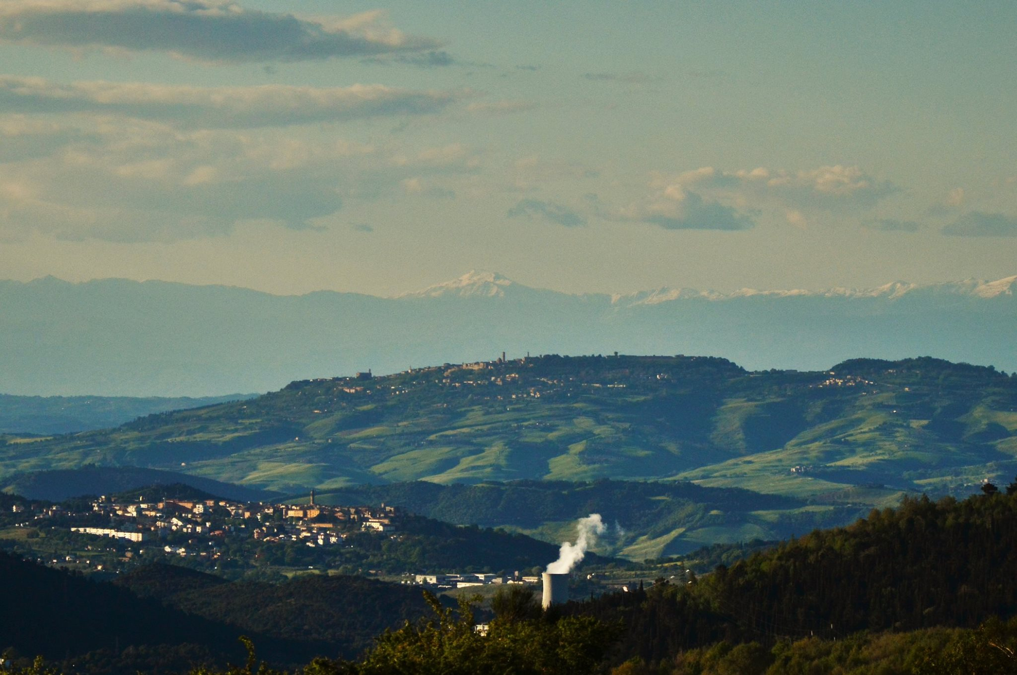 Pomarance e Volterra